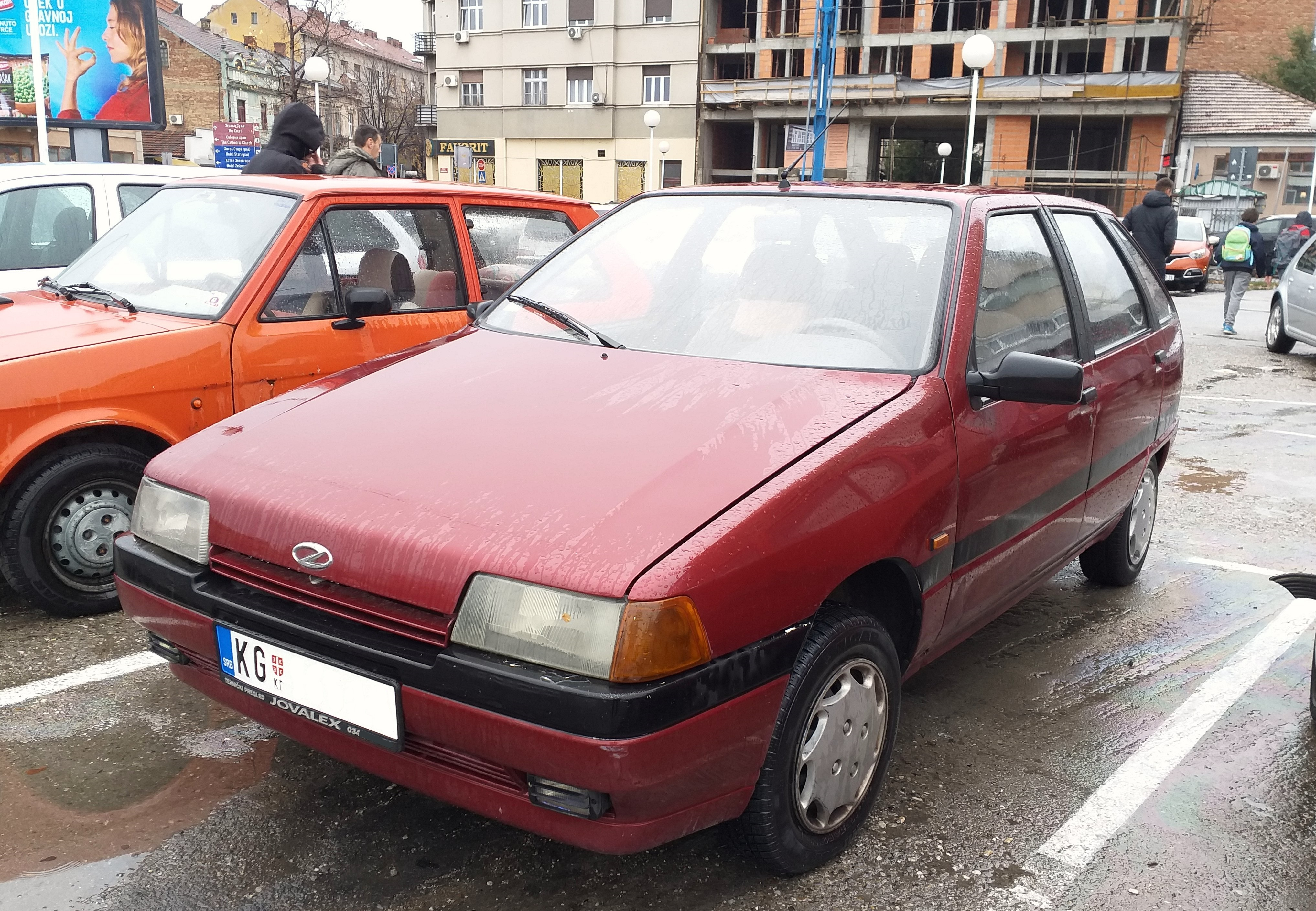 Zastava Florida 1.3 Business in Kragujevac Српски (ћирилица): Застава Флорида 1.3 Бизнис у Крагујевцу